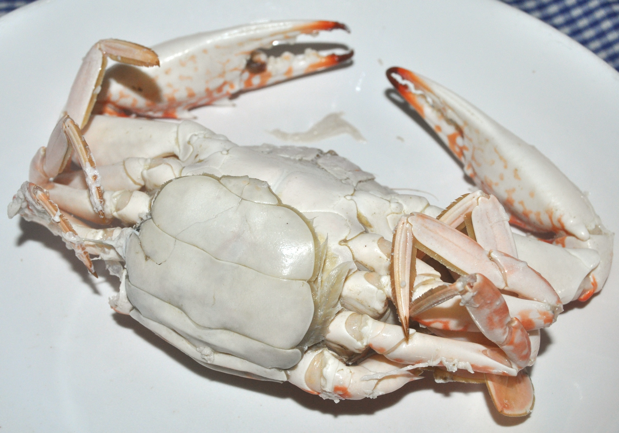 Charybdis feriata; female abdomen, 85mm carapace width, boiled. From traditional market in Bogor, West Java, Indonesia.